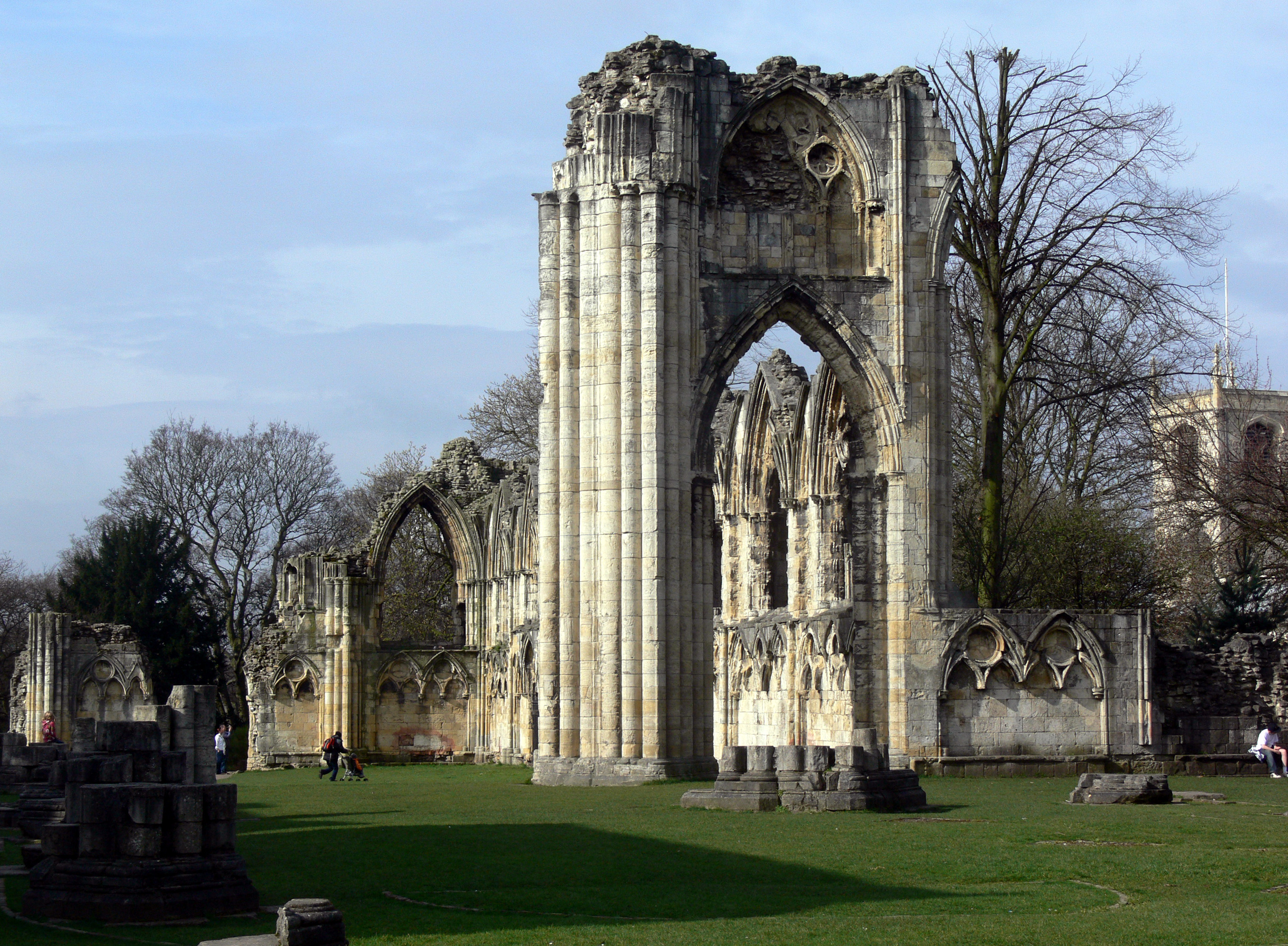 St_Mary's Abbey in York.